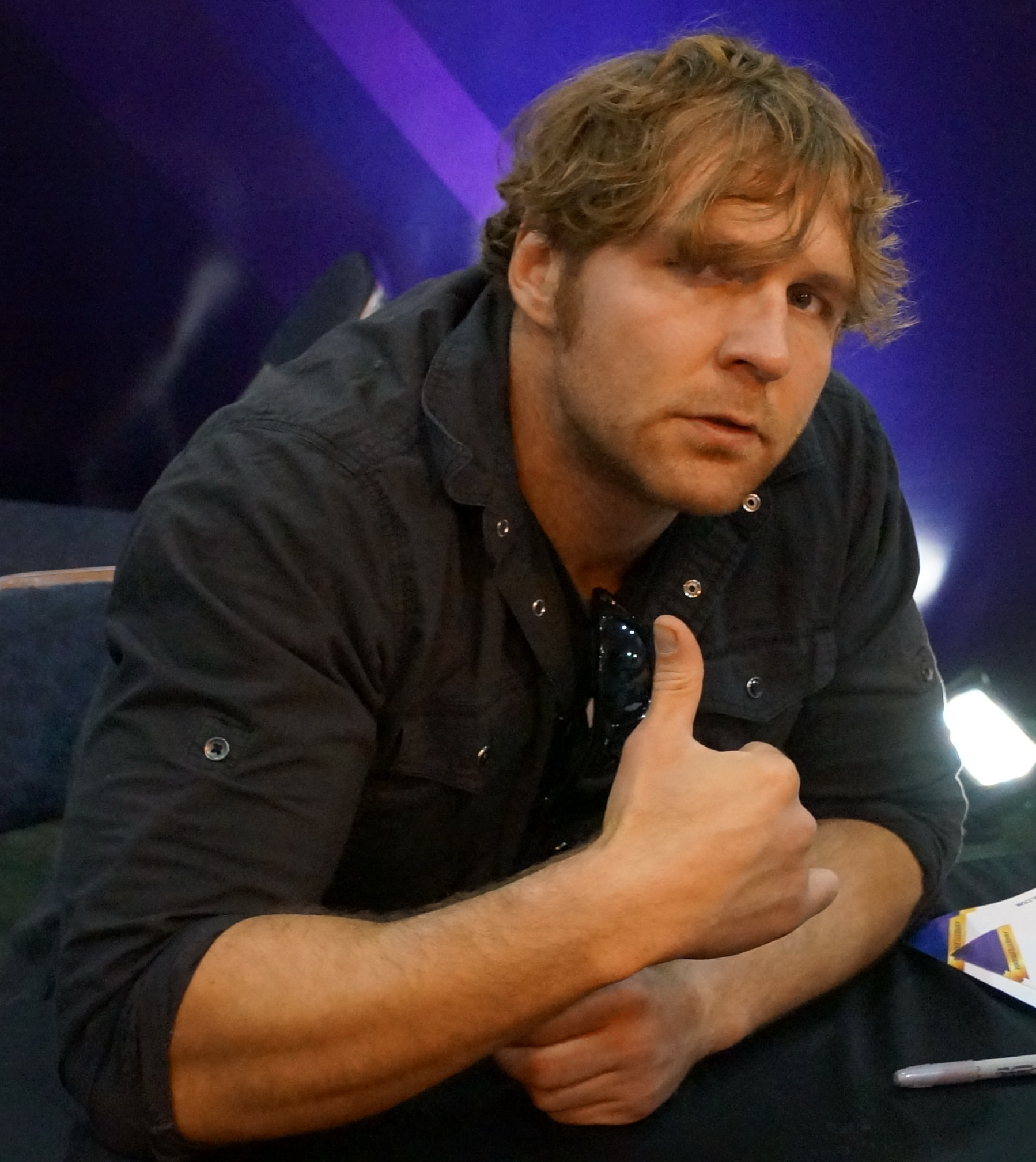 Dean Ambrose poses for photos with the fans at WWE Axxess. Originally taken 4/4/14, cropped for focus on subject.